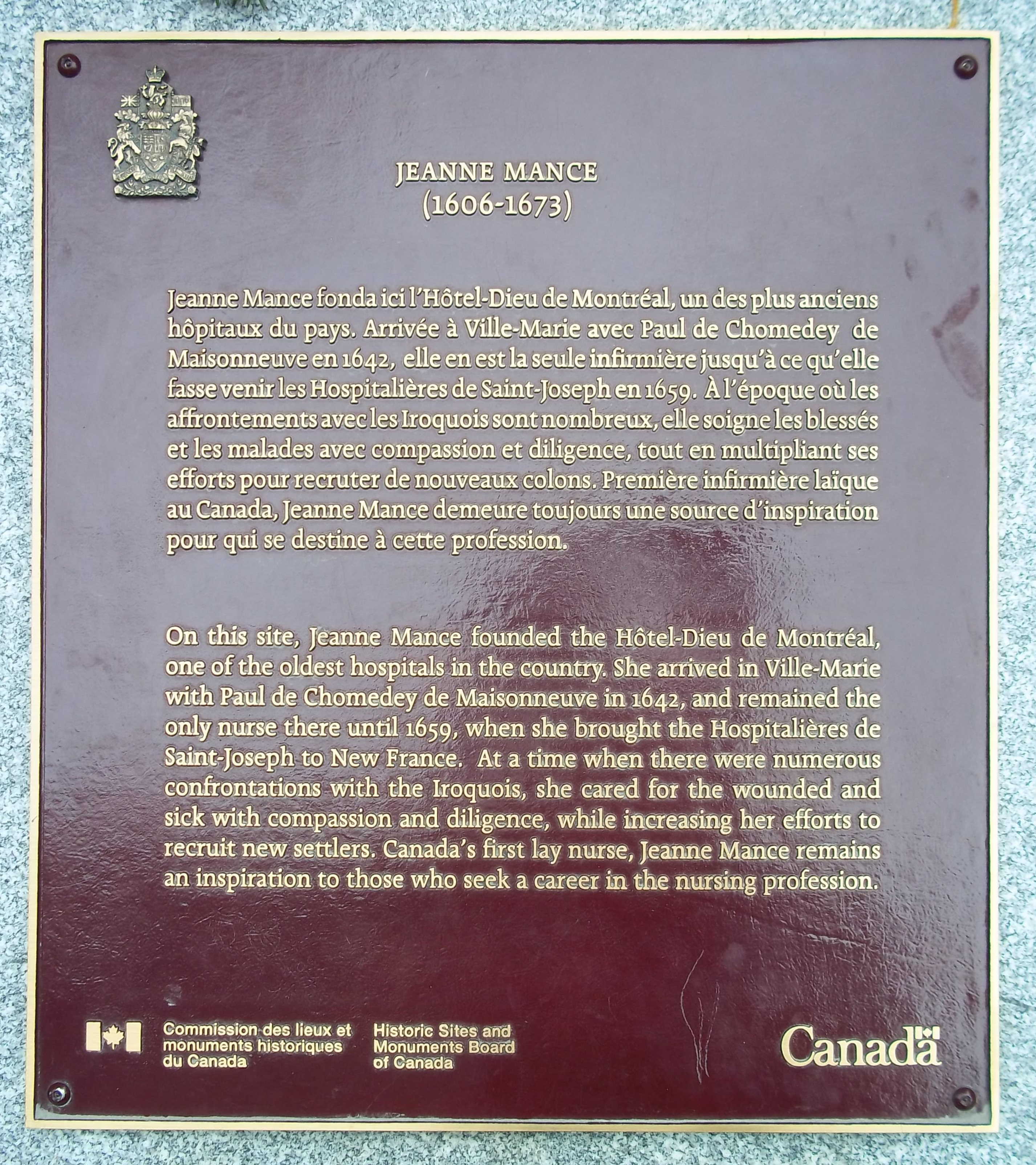 On this site, Jeanne Mance founded the Hôtel-Dieu de Montréal, one of the oldest hospitals in the country. She arrived in Ville-Marie with Paul Chomedey de Maisonneuve in 1642, ans remained the only nurse there until 1659, when she brought the Hospitalières de Saint-Joseph to New France. At a time when there were numerous confrontations with the Iroquois, she cared for the wounded and sick with compassion and diligence, while increasing her efforts to recruit new settlers. Canada's first lay nurse, Jeanne Mance remains an inspiration to those who seek a career in the nursing profession.